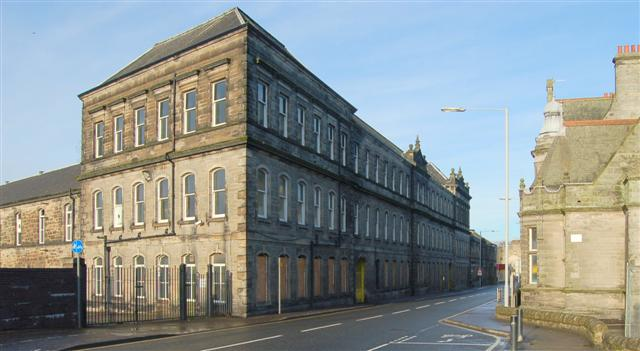 Pilmuir Works This warehouse and office block has been standing here on the west side of Pilmuir Street since 1900, it has had a variety of occupants over the years but it has not been used since 2004.The building on the right is The Carnegie Centre304646